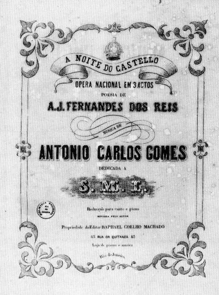 Description: Title page of the score for A noite do castelo by Antônio Carlos Gomes (1836 — 1896) Date of publication: 1861 Publisher: Raphael Coelho Machado